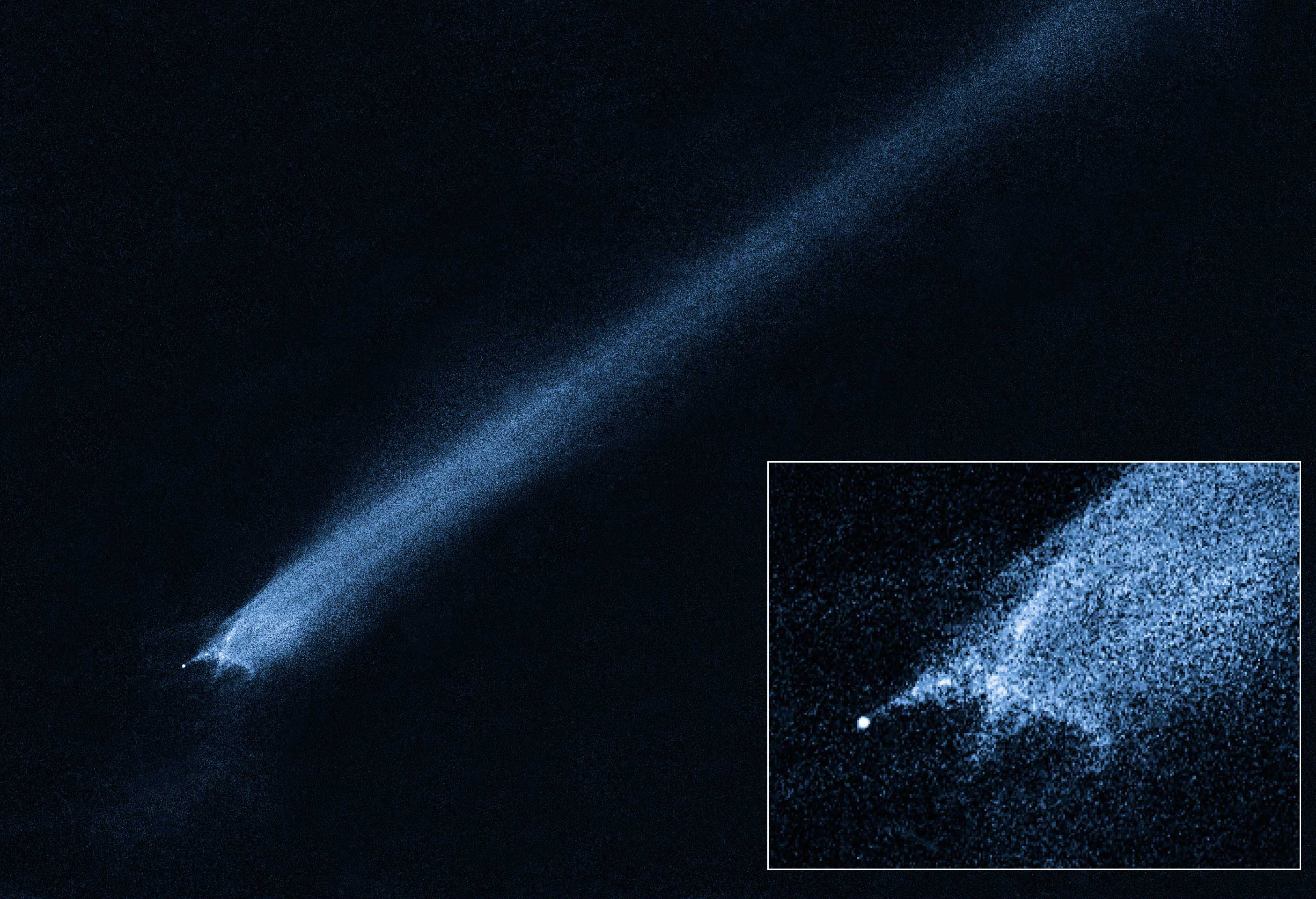 Pictured above, Hubble indicates that P/2010 A2 is unlike any object ever seen before. At first glance, the object appears to have the tail of a comet. Close inspection, however, shows a 140-meter nucleus offset from the tail centre, very unusual structure near the nucleus, and no discernible gas in the tail. Knowing that the object orbits in the asteroid belt between Mars and Jupiter, a preliminary hypothesis that appears to explain all of the known clues is that P/2010 A2 is the debris left over from a recent collision between two small asteroids. If true, the collision likely occurred at over 15,000 kilometres per hour -- five times the speed of a rifle bullet -- and liberated energy in excess of a nuclear bomb. Pressure from sunlight would then spread out the debris into a trailing tail. Future study of P/2010 A2 may better indicate the nature of the progenitor collision and may help humanity better understand the early years of our Solar System, when many similar collisions occurred.